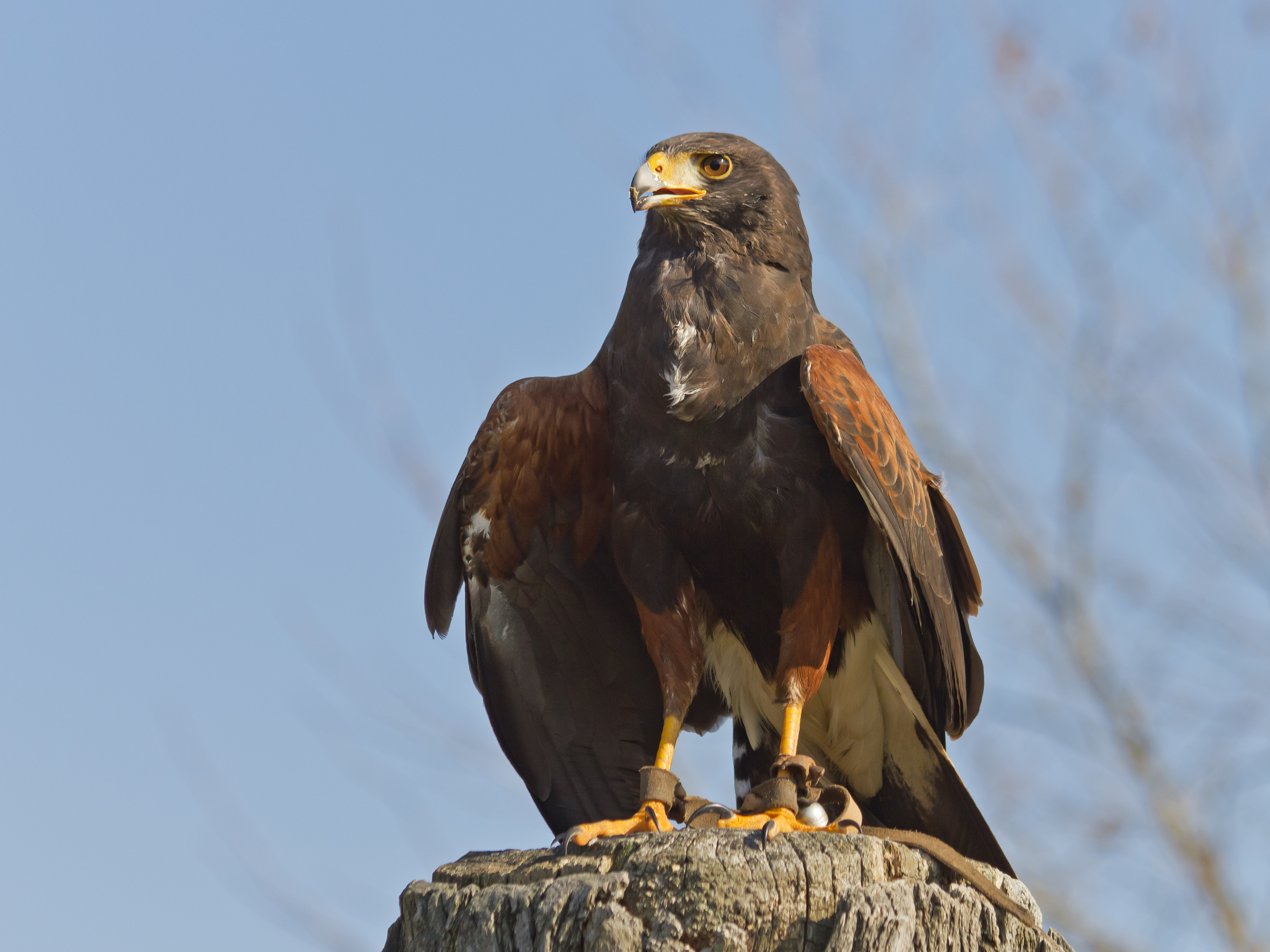 Wildlife park Johannismühle near Baruth/Mark, Brandenburg, Germany. A Harris Hawk.